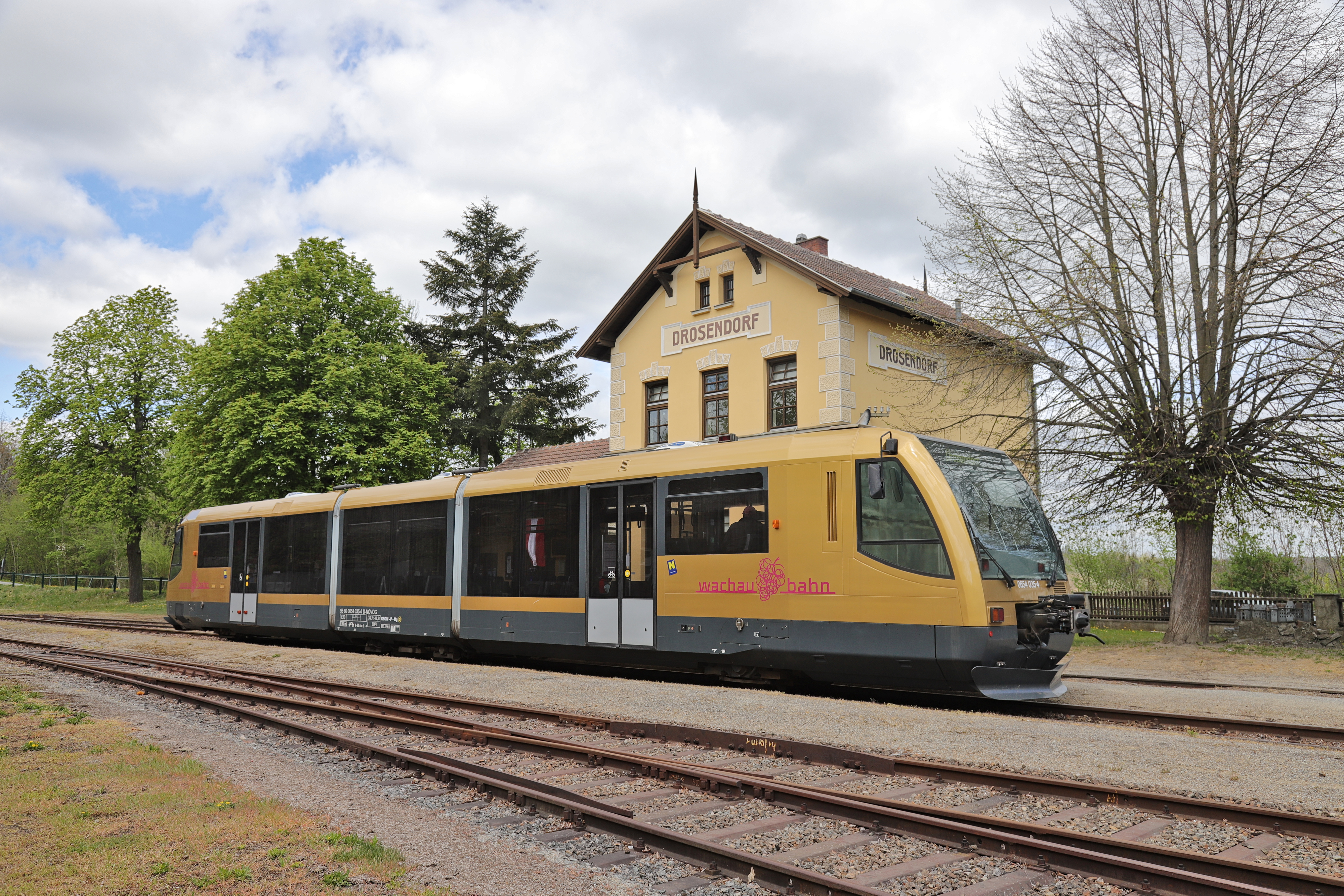 NÖVOG-RegioSprinter 0654 035 at Drosendorf station